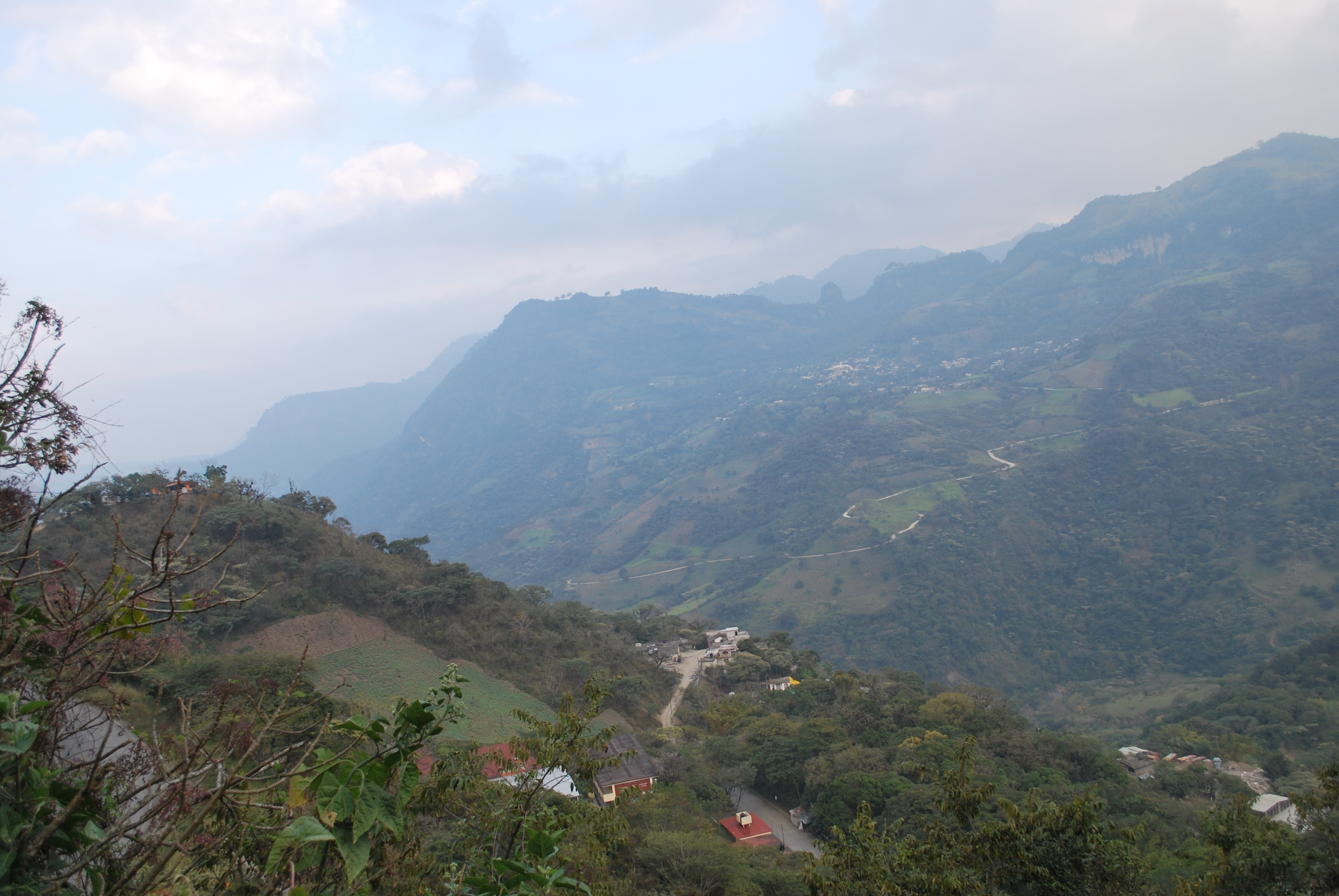 View of the Pahuatlán Valley and the Sierra Norte de Puebla, Puebla state, México.